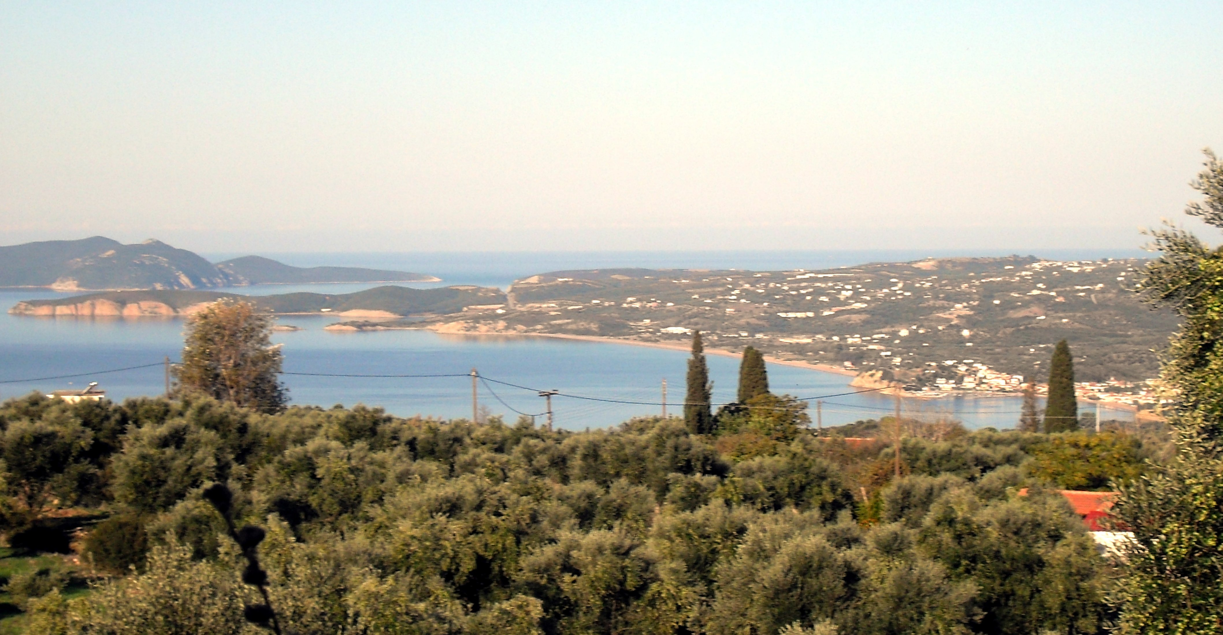 Foinikounta, Cape Kolyvri and Sapientza Island